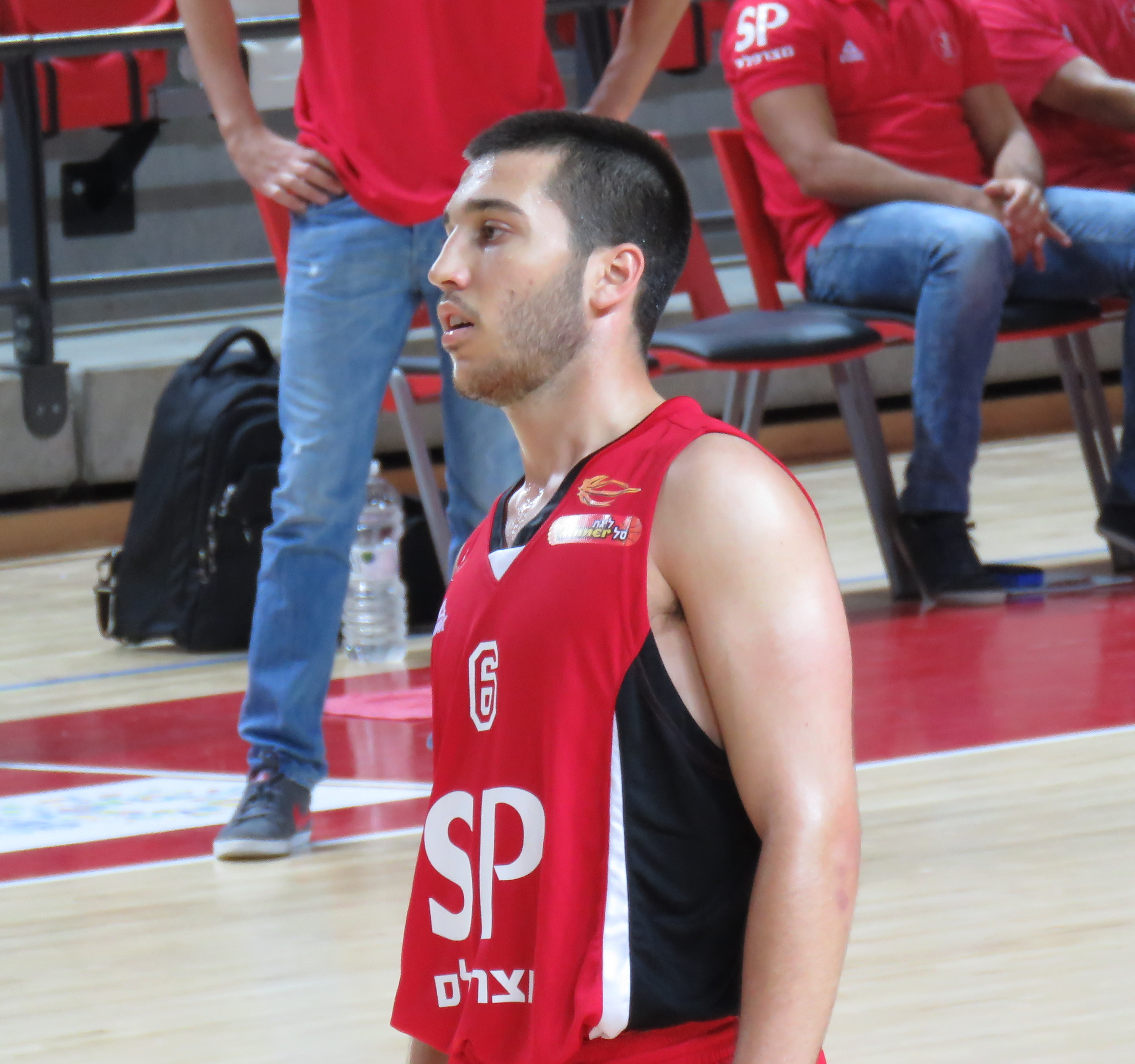 Hapoel Tel Aviv vs. Hapoel Eilat - Pre-season friendly, Septeber 11, 2015